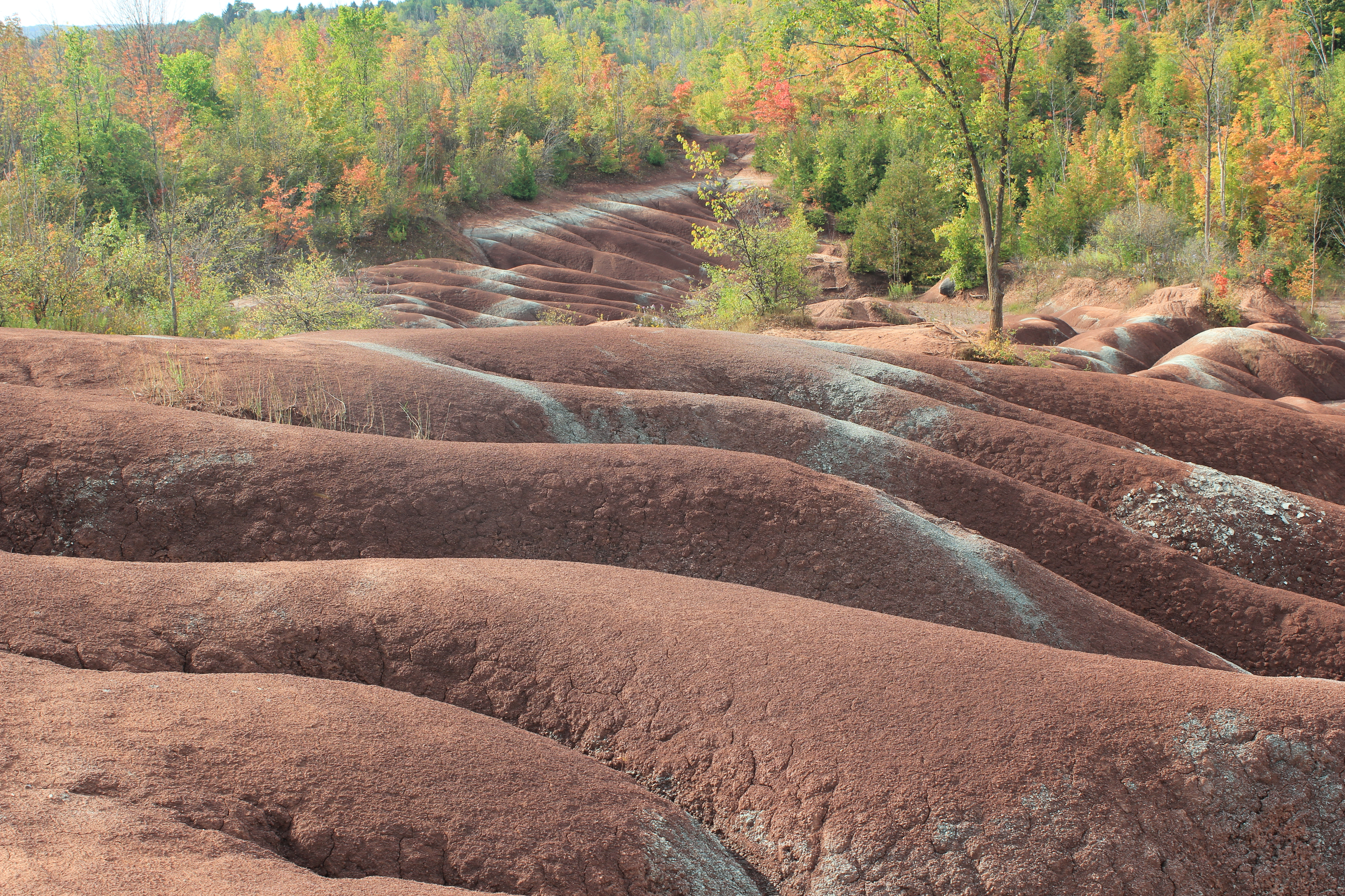 Cheltenham Badlands is badlands formation in Caledon, Ontario.